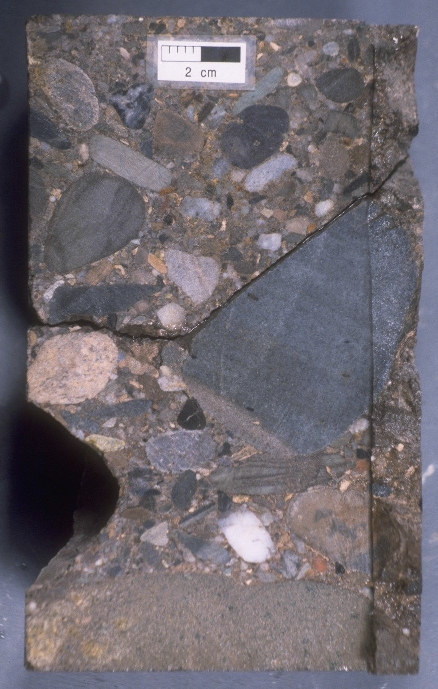 Pebble to cobble conglomerate cored from the Upper Jurassic (Tithonian) Jeanne d'Arc Formation at the Hibernia O-35 well of the Hibernia oilfield, Jeanne d'Arc Basin, Grand Banks of Newfoundland.